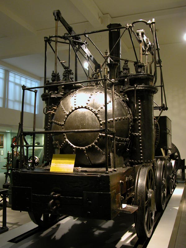 Picture of the "Puffing Billy" steam engine taken in the Science Museum (London). Taken by User:William M. Connolley on 2004/03/13.